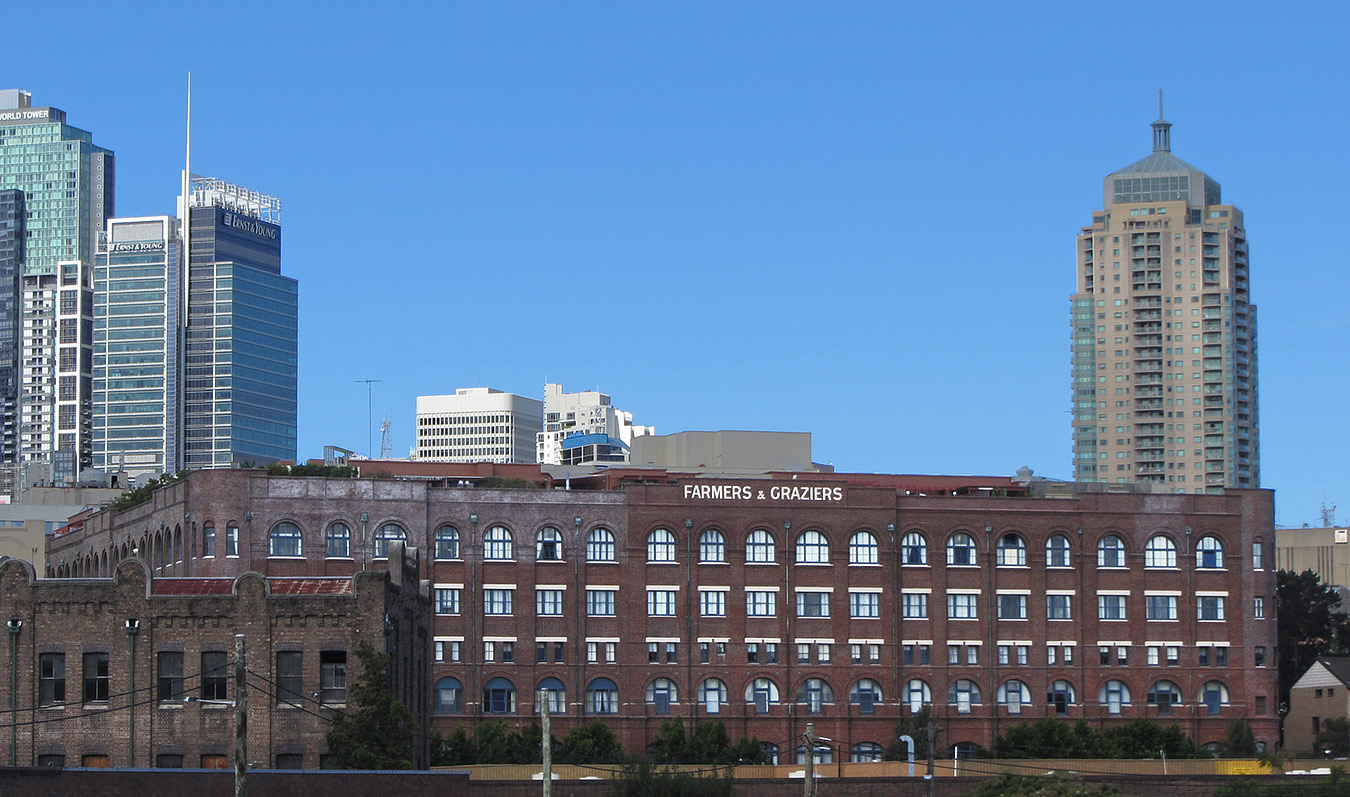 Farmers & Graziers is a former wool store, now an apartments building. This street view will disappear once the Glebe housing project is built.